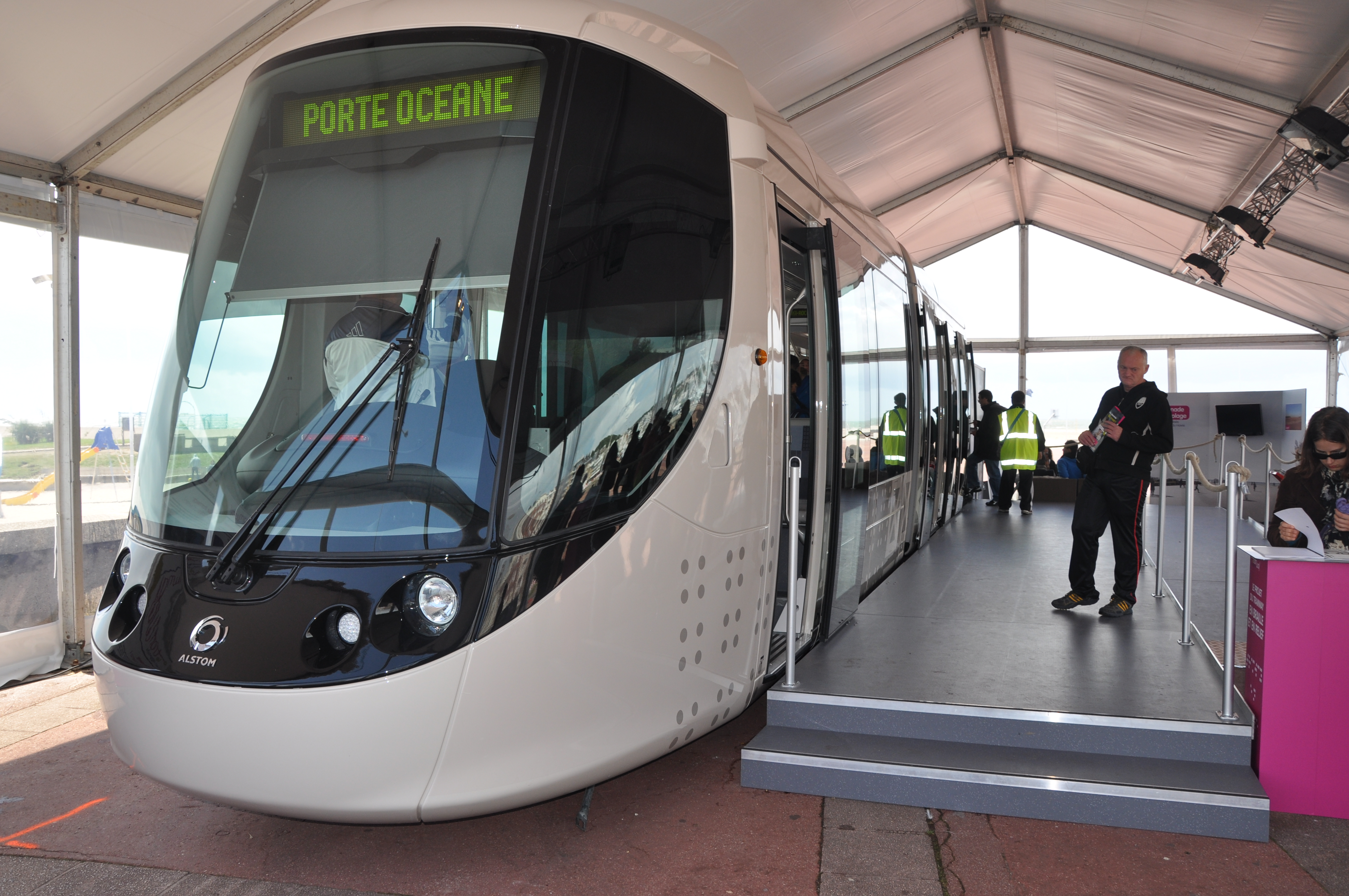 View of tramway of Le Havre (Normandy). "Porte Océane" mean Ocean Door; these words for Le Havre (in France), and for access to sea (in Le Havre)